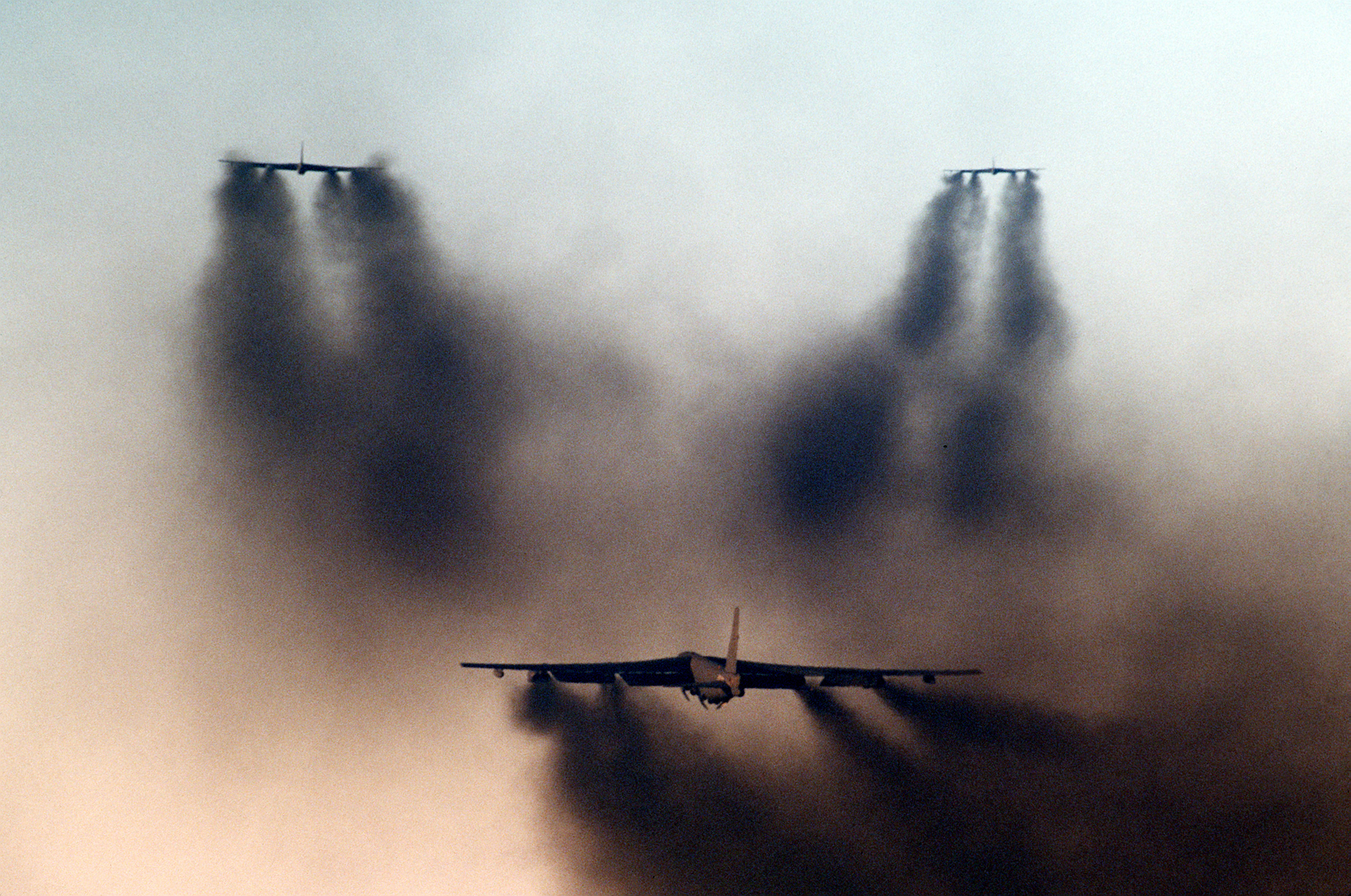 Three U.S. Air Force Boeing B-52G Stratofortress aircraft from the 2nd Bombardement Wing take off from Barksdale Air Force Base, Louisiana (USA). Three cells of six B-52s and KC-10 Extender aircraft took off seconds apart under combat conditions during a minimum interval takeoff exercise. The exercise was part of an operational readiness inspection by the USAF Strategic Air Command Inspector General Team.